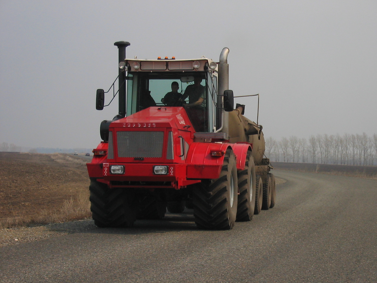 Russian farm tractor K-744